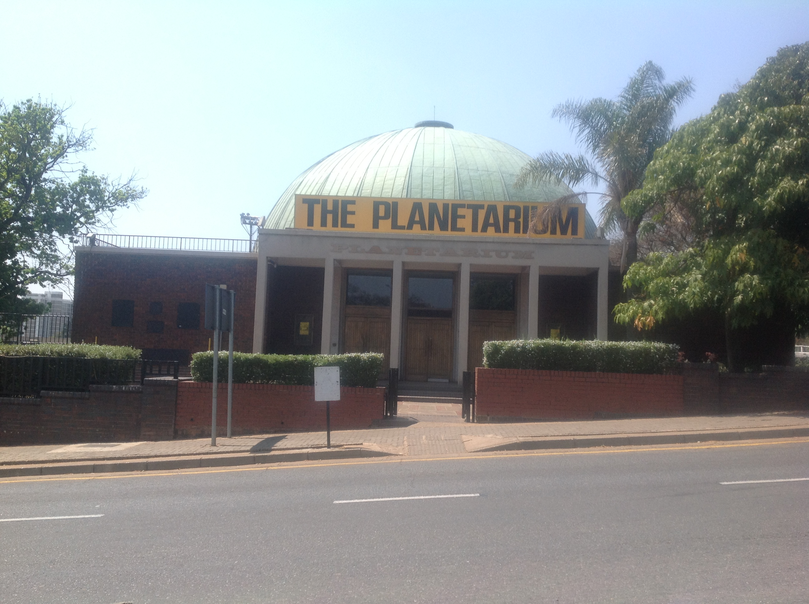 In 2010, the Johannesburg Planetarium celebrated its golden jubilee. This planetarium deserves recognition. This media shows a South African Protected Site with SAHRA file reference NEW.